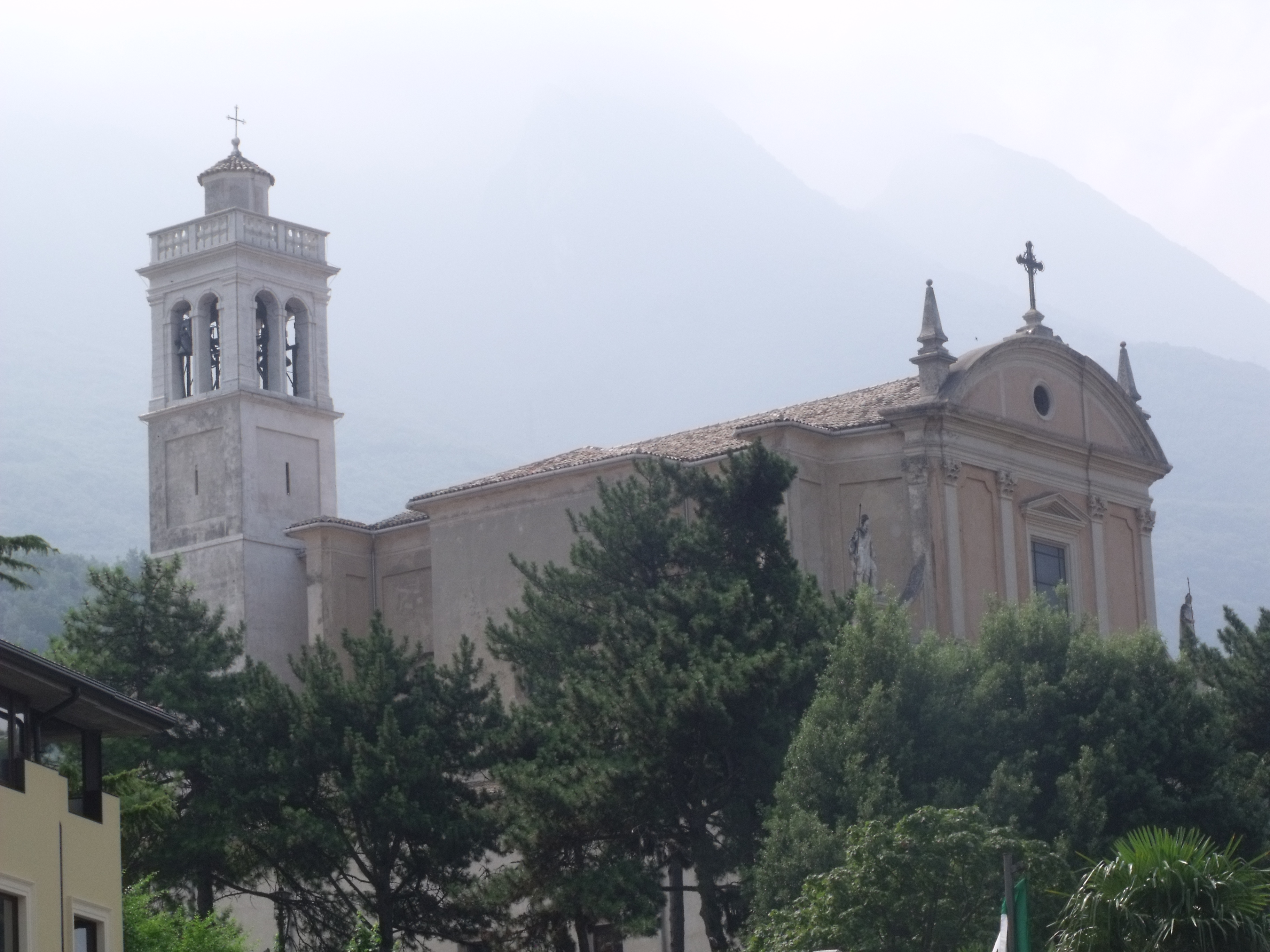 This is Malcesine a town in the Veneto region of Italy on Lake Garda.